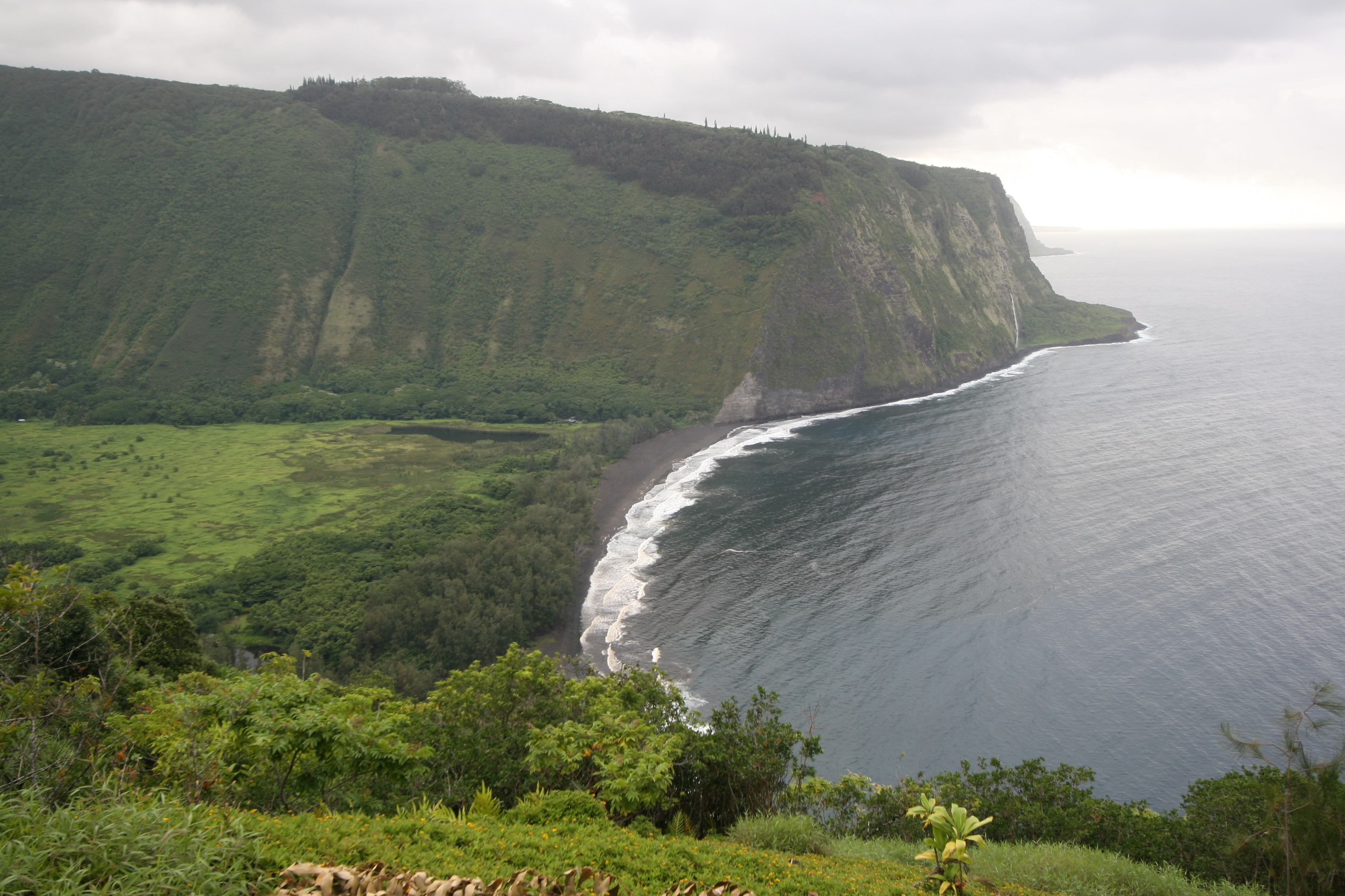 The View from the Waipio Valley Lookout, Hamakua, Hawaii